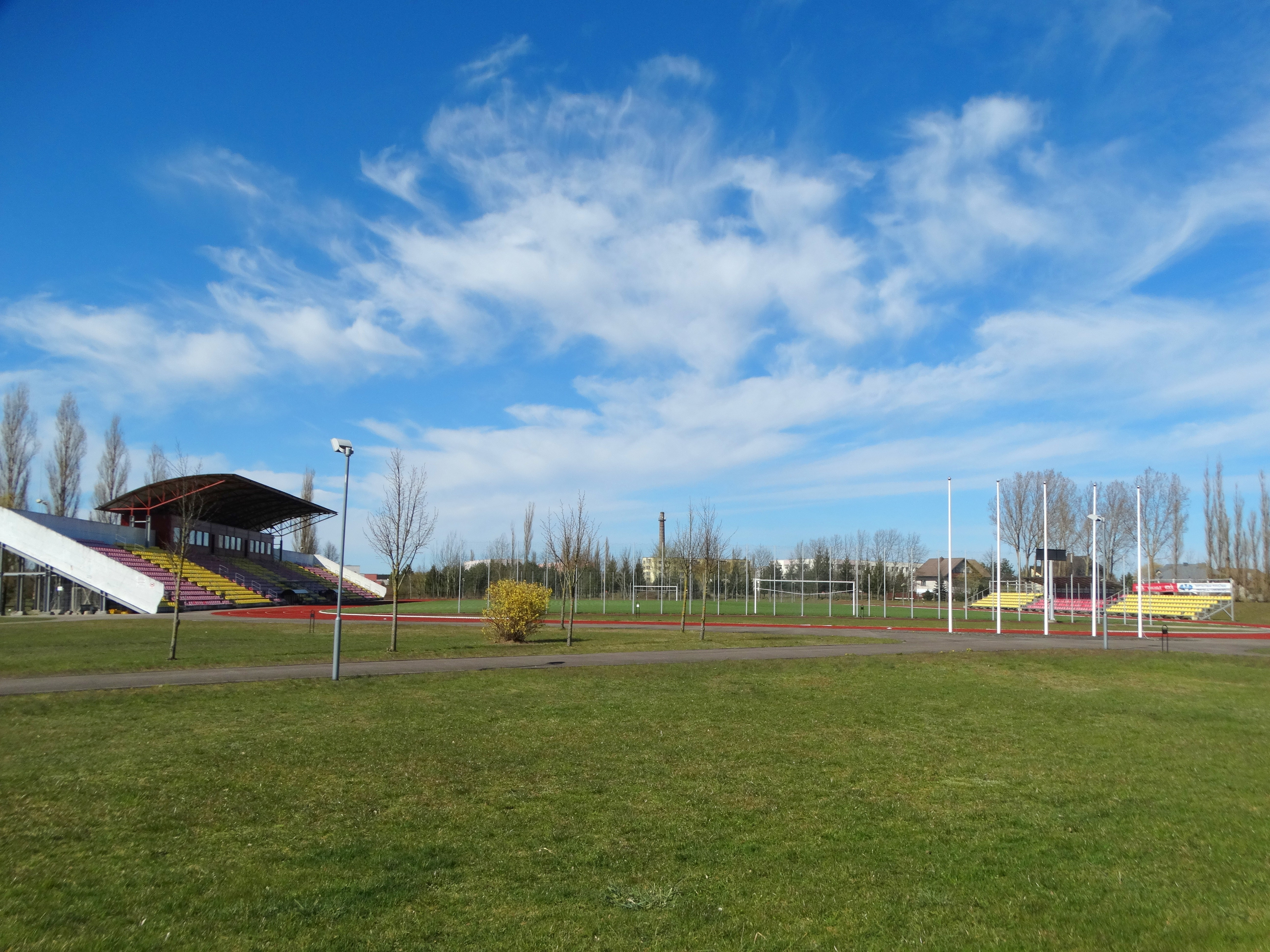 Vytautas Stadium, Tauragė, Lithuania